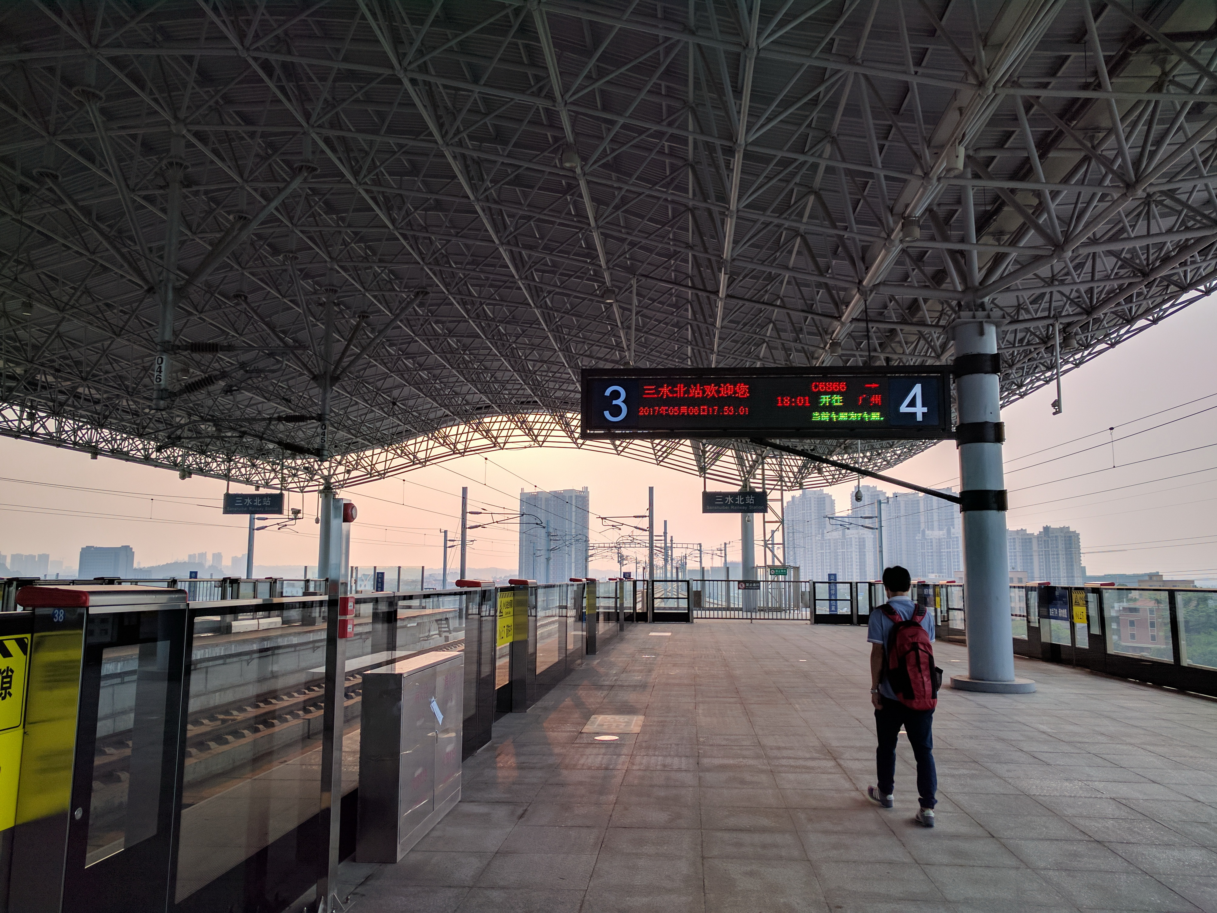 Platform 3/4 at Sanshui North(Sanshuibei) railway station in Guangdong, China